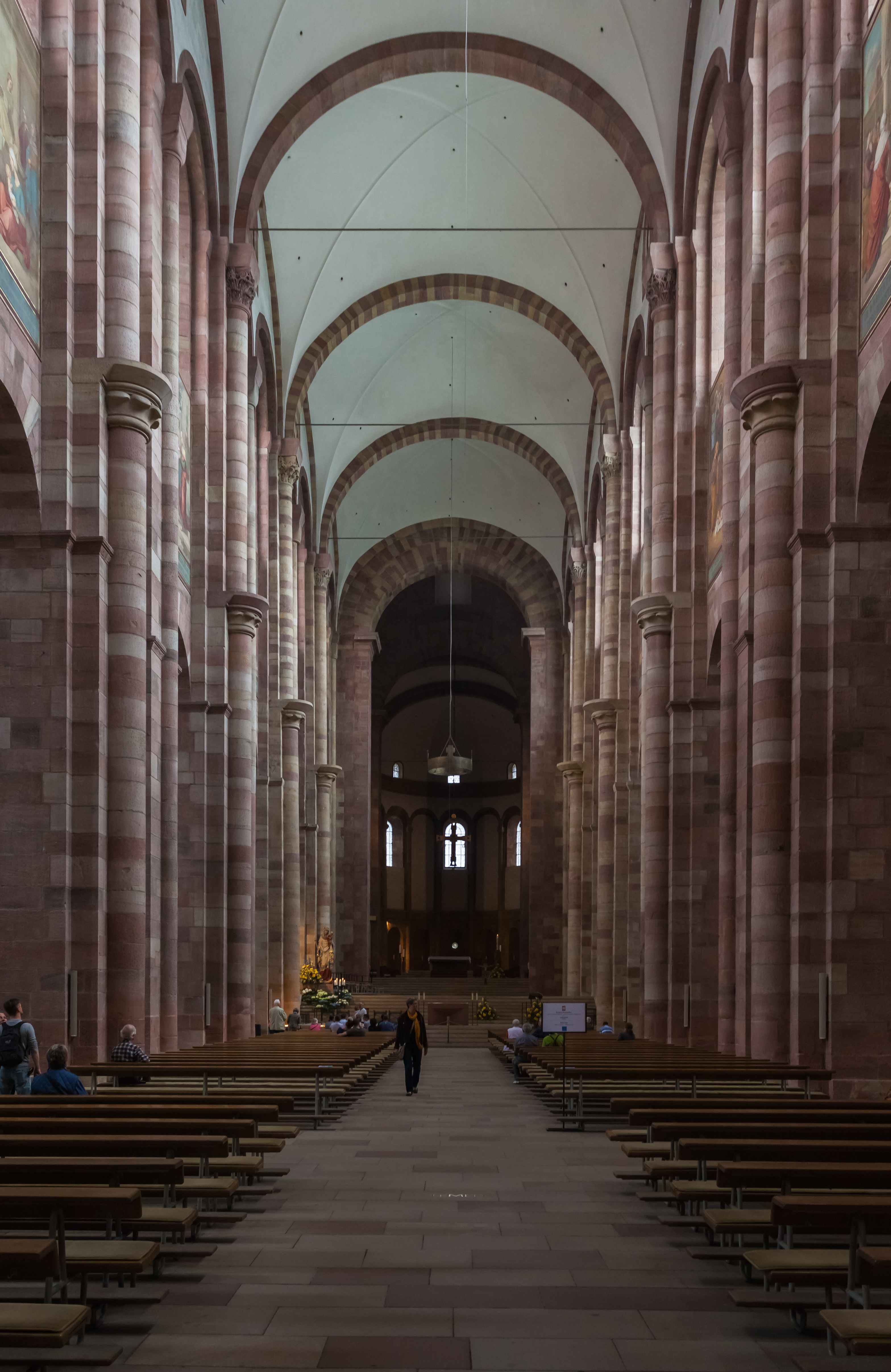 Speyer Cathedral, Germany